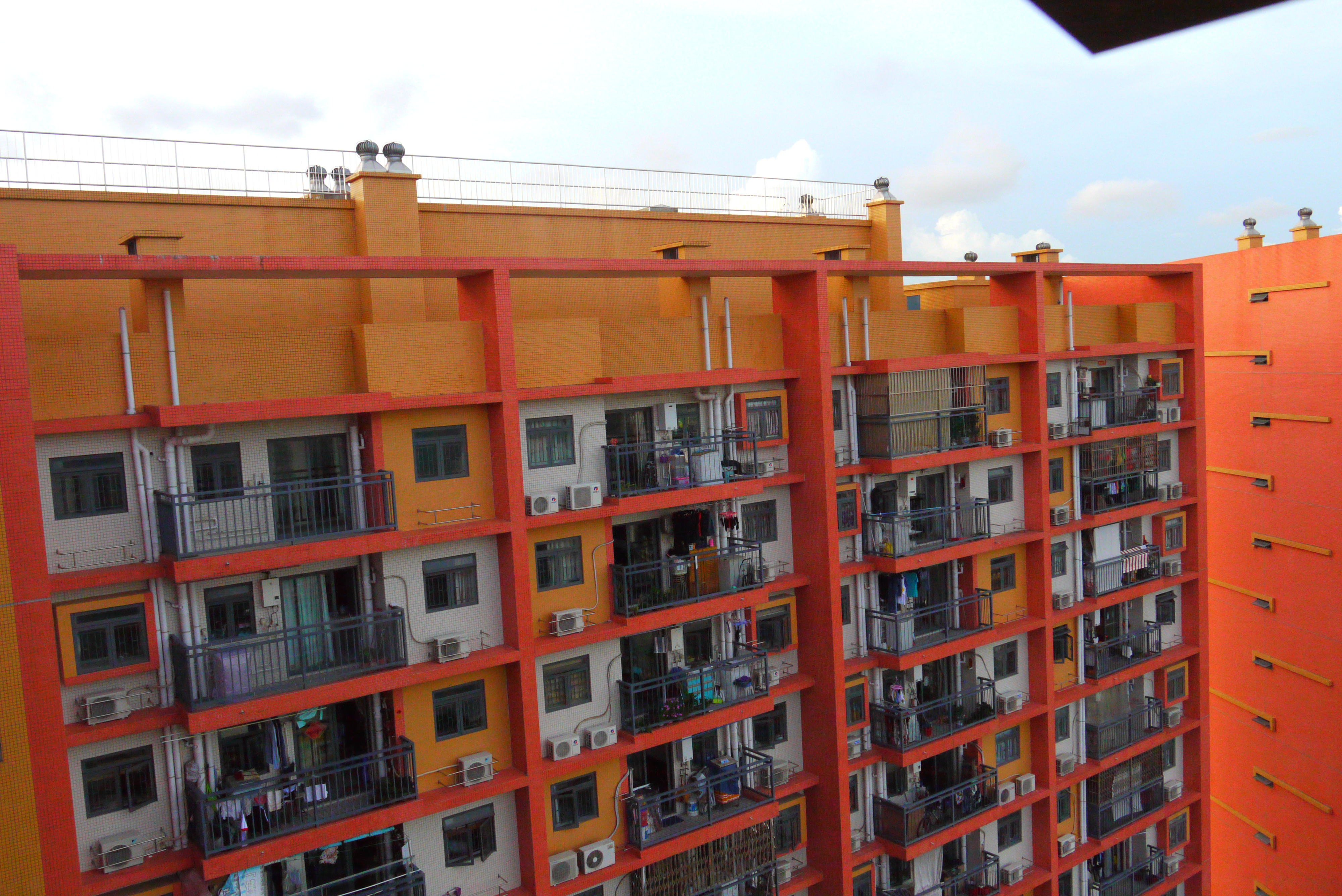 Cheng Chui Top Details